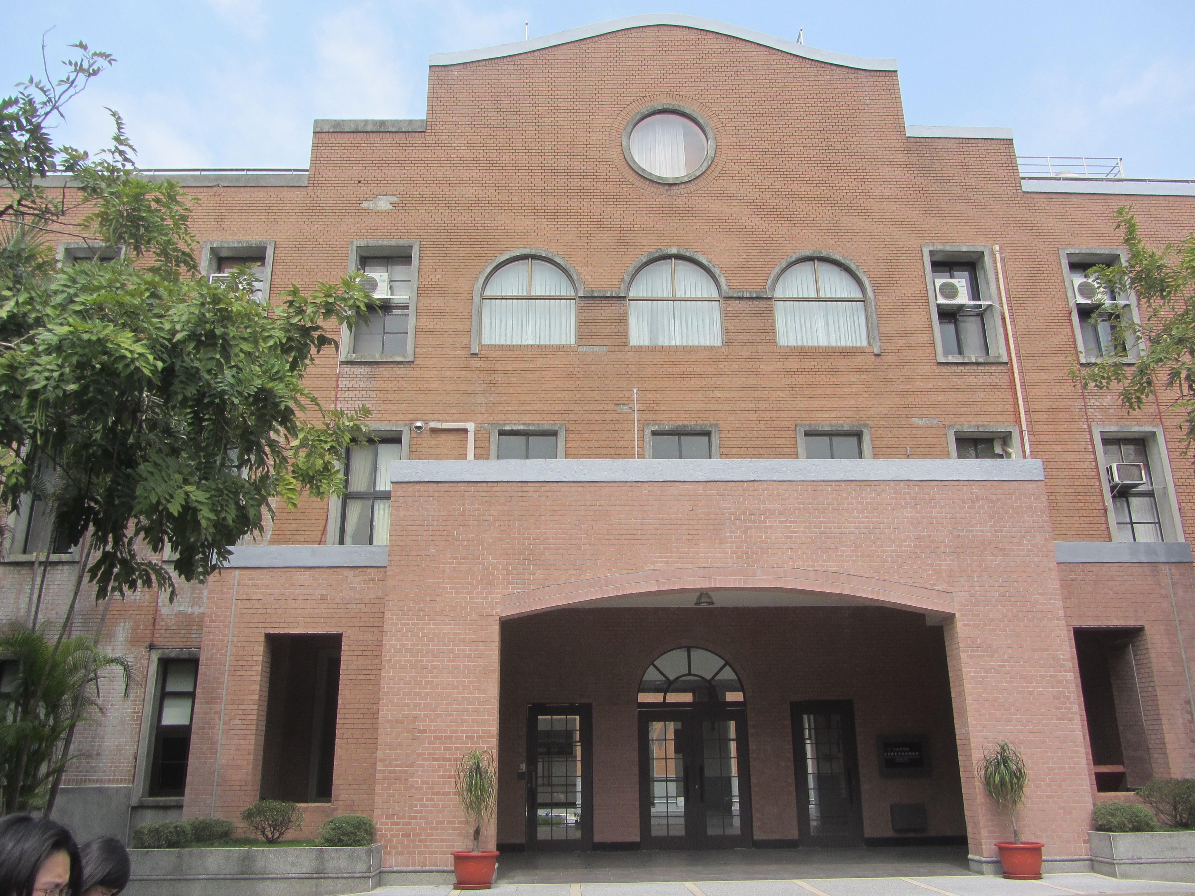 Institute of Atomic and Molecular Sciences Academia Sinica